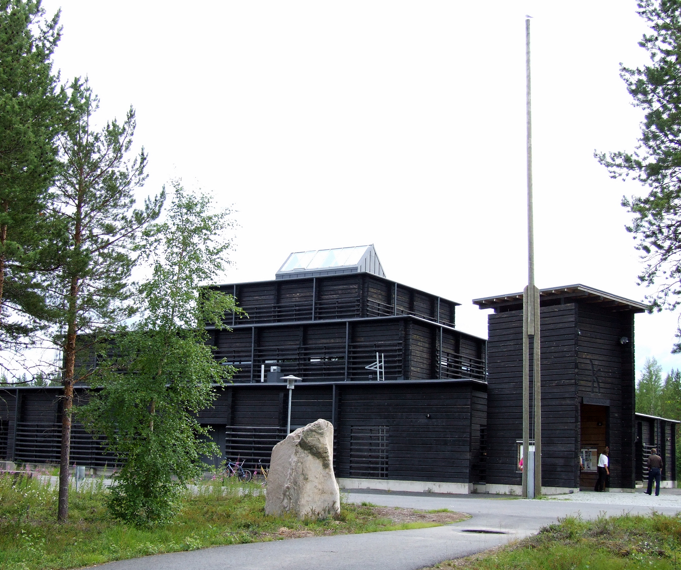 The Kierikki Stone Age Centre main building is a largest log building in Scandinavia. The building was designed by architect Reijo Jallinoja in 1999 and built in 2001.